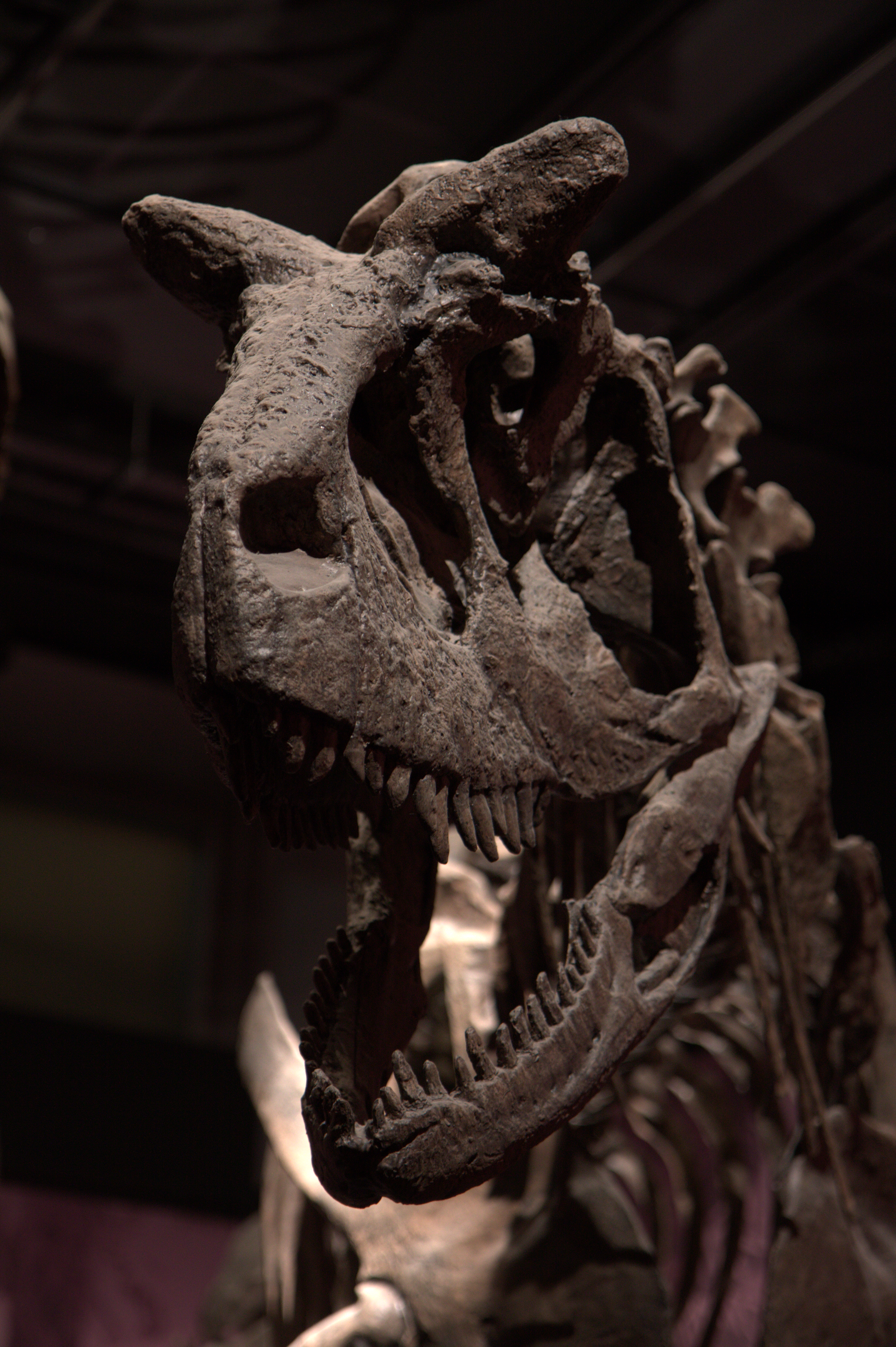 Carnotaurus sastrei : Cast of skull